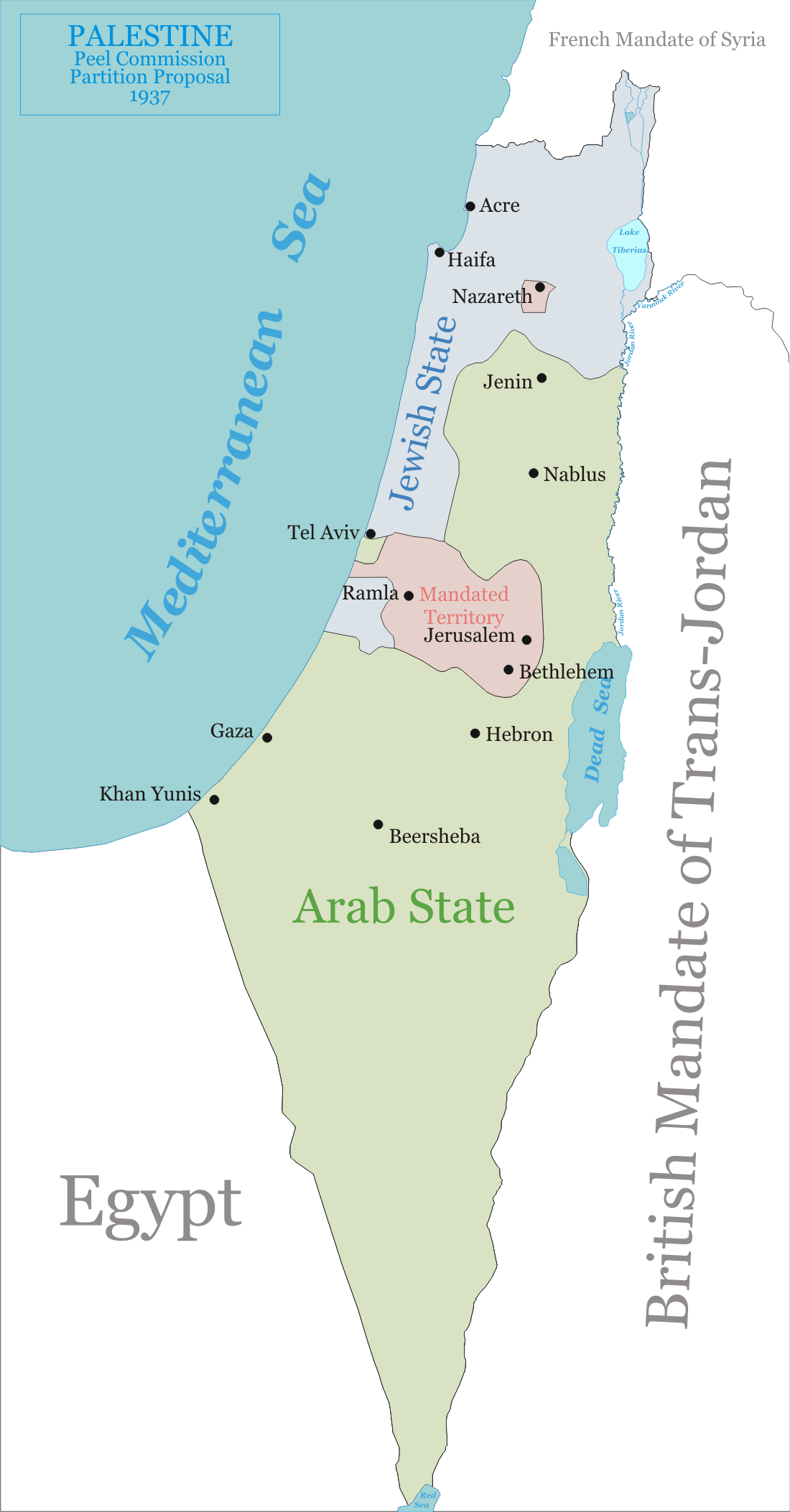 Map of the Peel Commission partition proposal for Palestine, 1937. Green - proposed Arab state Blue - proposed Jewish state Pink - proposed international neutral zone